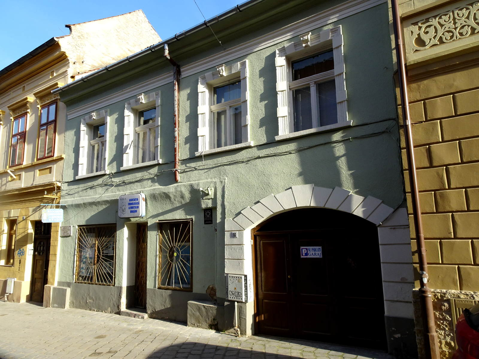 House on Postăvarului street in Brașov; house number 10